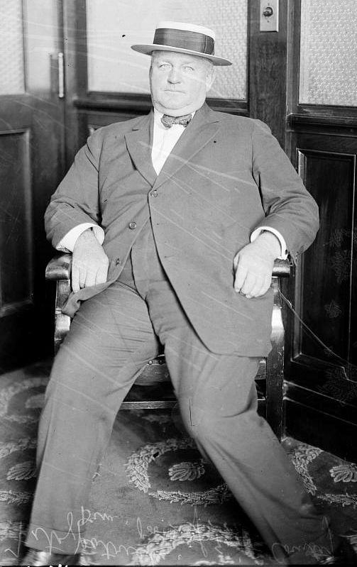 Bain News Service,, publisher. William H. Fitzpatrick of Erie [between ca. 1910 and ca. 1915] 1 negative : glass ; 5 x 7 in. or smaller. Notes: Title from unverified data provided by the Bain News Service on the negatives or caption cards. Forms part of: George Grantham Bain Collection (Library of Congress). Format: Glass negatives. Repository: Library of Congress, Prints and Photographs Division, Washington, D.C. 20540 USA, General information about the Bain Collection is available at Persistent URL: Call Number: LC-B2- 2814-14